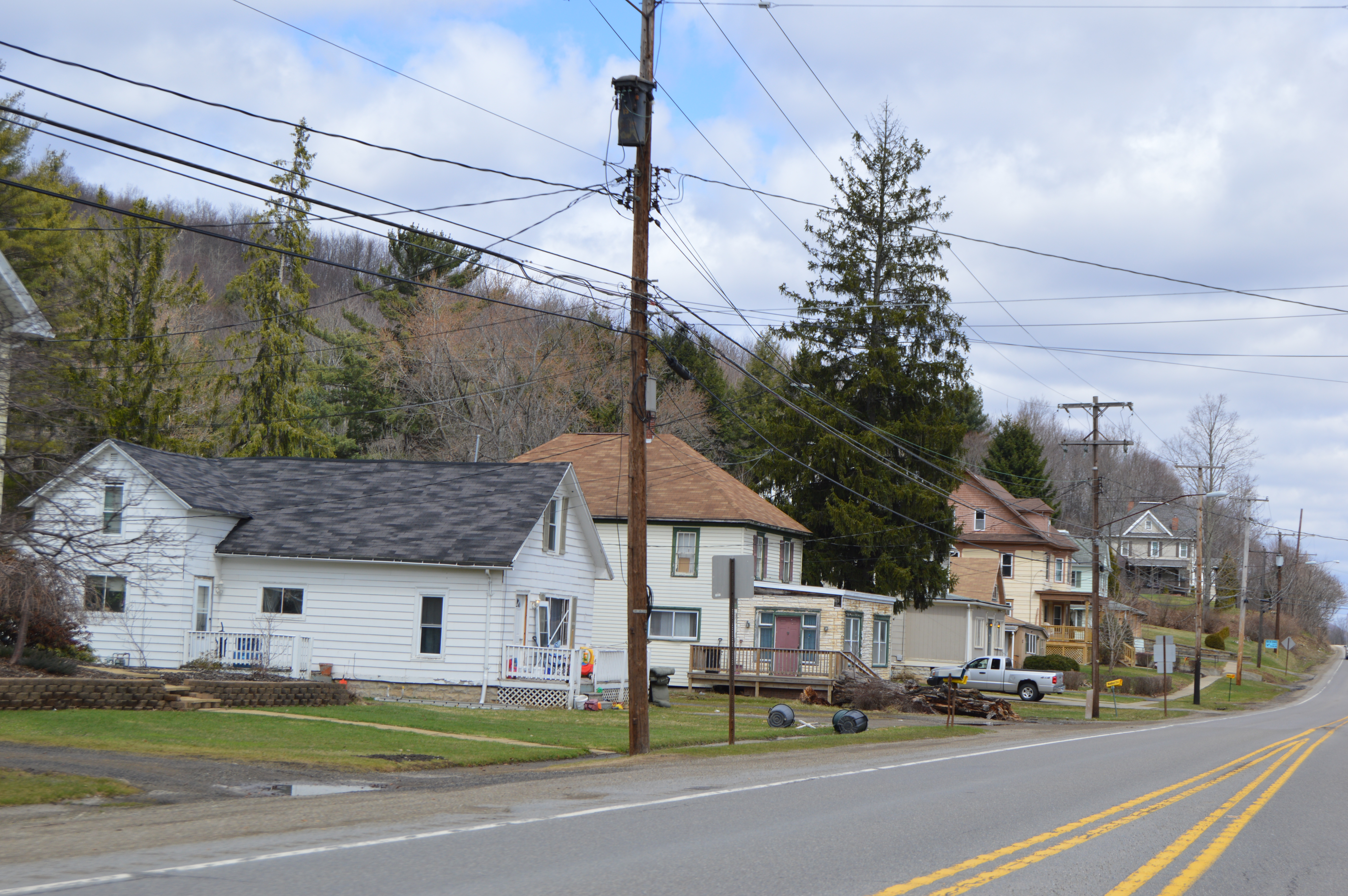 Houses on the western side of U.S. Route 219/Pennsylvania Route 770 at Custer City in Bradford Township, McKean County, Pennsylvania, United States.